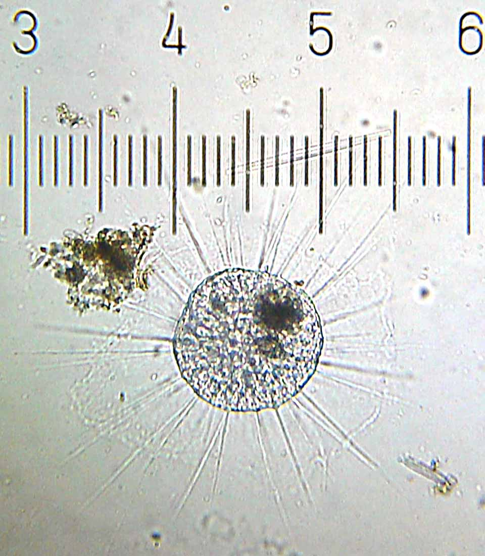 An Actinophryid or "sun animalcule". 10x objective, 15x eyepiece; each numbered tick is 122 µM.